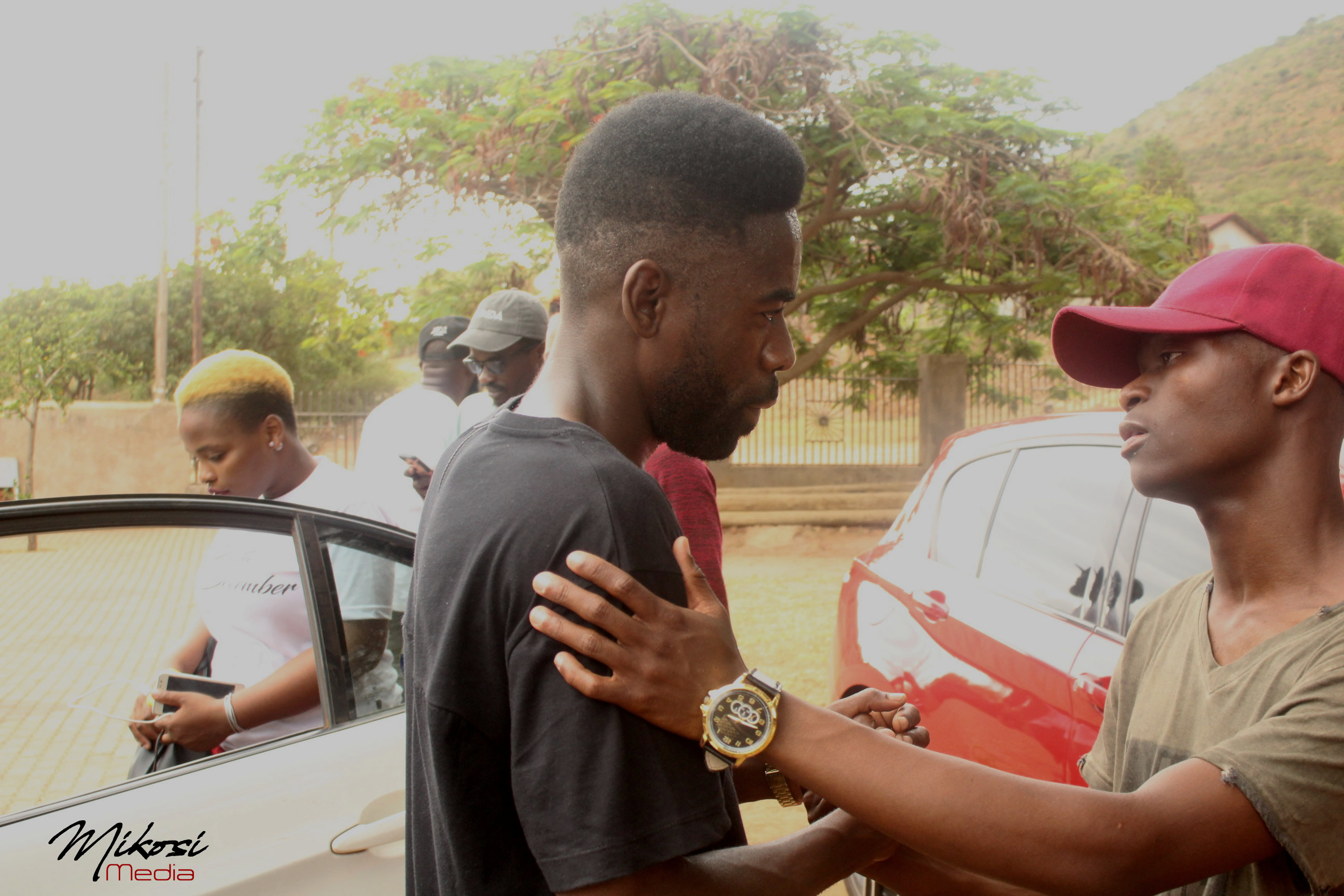 Mizo Phyll & Mike Tuney at the Mr & Mrs Tshavhalovhedzi 2017 event.